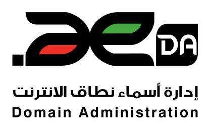 aeDA Logo